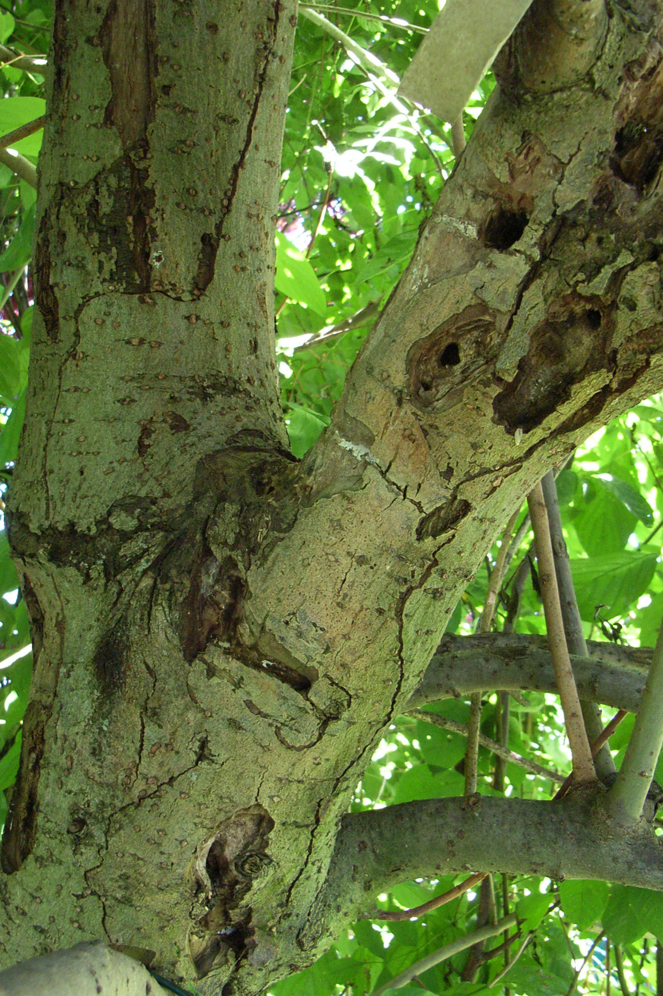 Willow with Cossus cossus, opended by a woodpecker